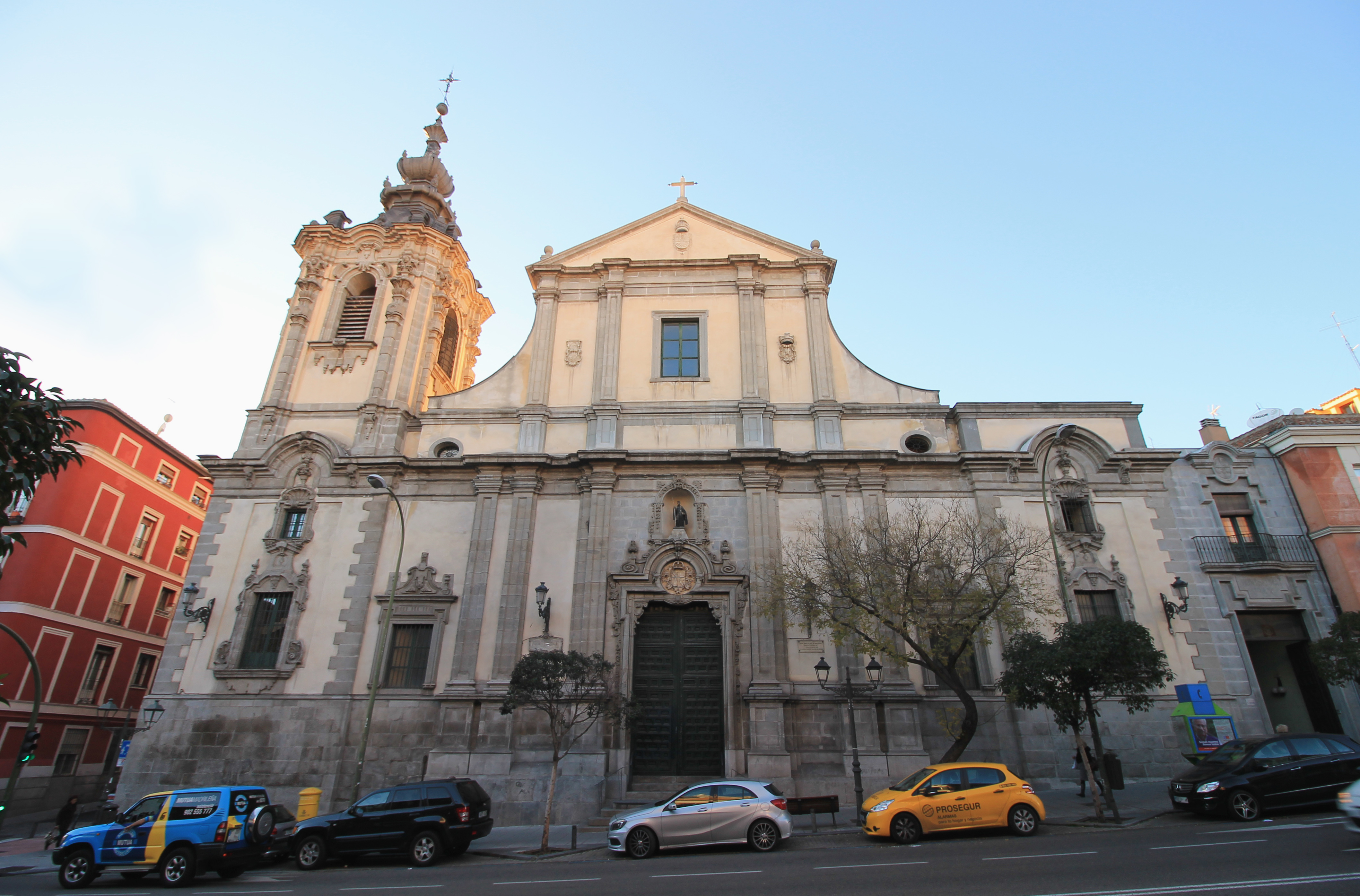 East façade of the Church of Our Lady of Montserrat in Madrid (Spain).